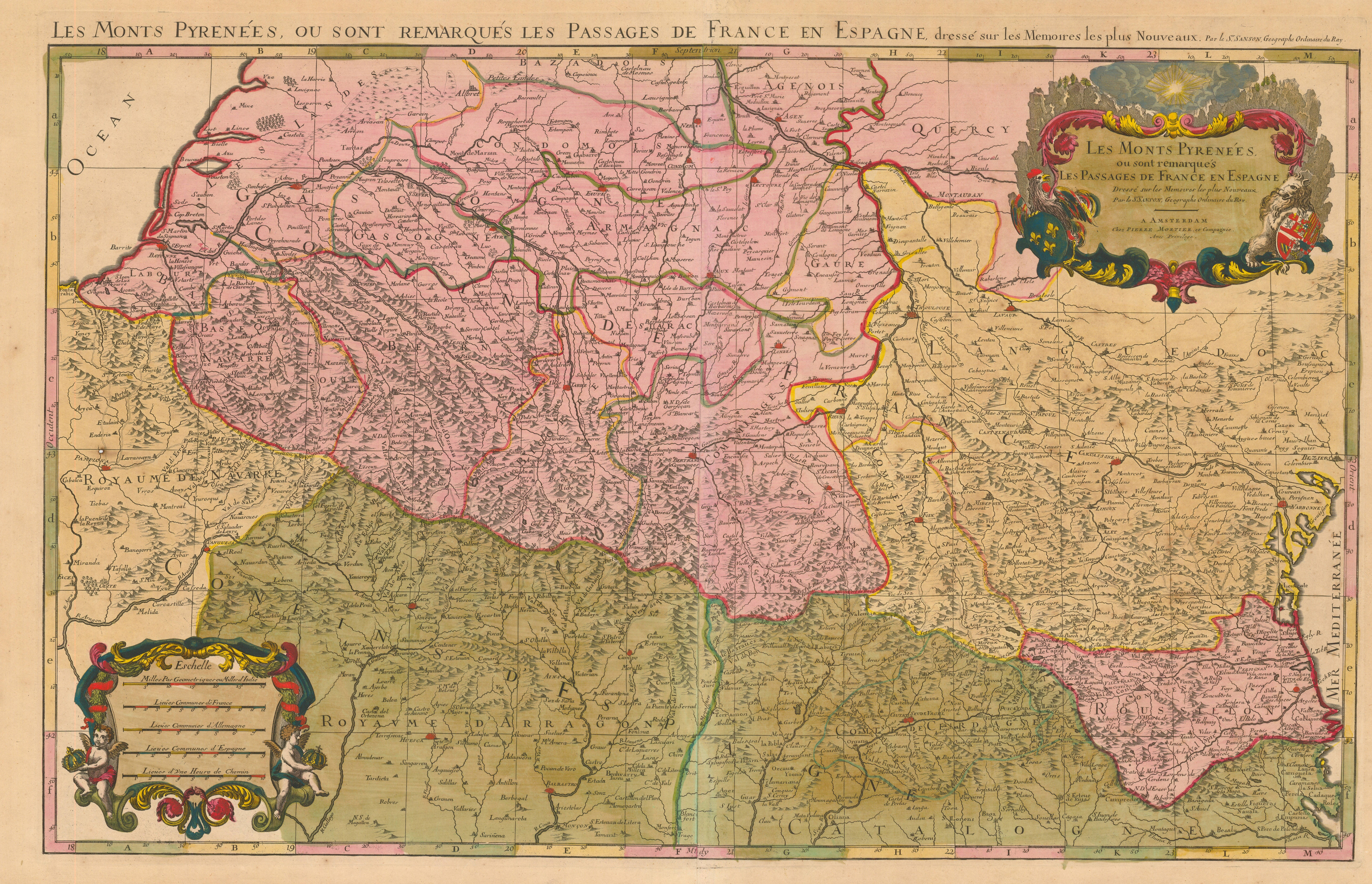 Pyrenees mountains and international border between France and Spain showing the mountains passes between the two countries. By Nicolas Sanson, geograph of Louis XIII de France and Louis XIV de France. Etablished between 1659 (Treaty of the Pyrenees) and 1667 (death of the author), publication was made after the death of the author. The map show the border between France and Spain after the Treaty of Pyrenees: one can see that Roussillon belong then to France.